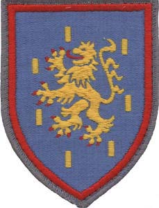 coat of arms Panzerbrigade 14 (PzBrig 14) of the Bundeswehr (Armed Forces of the Federal Republic of Germany). → Remarks on naming and categorization scheme